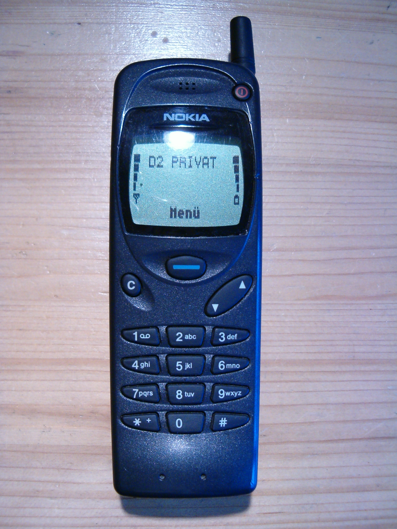 Nokia 3110 mobile phone